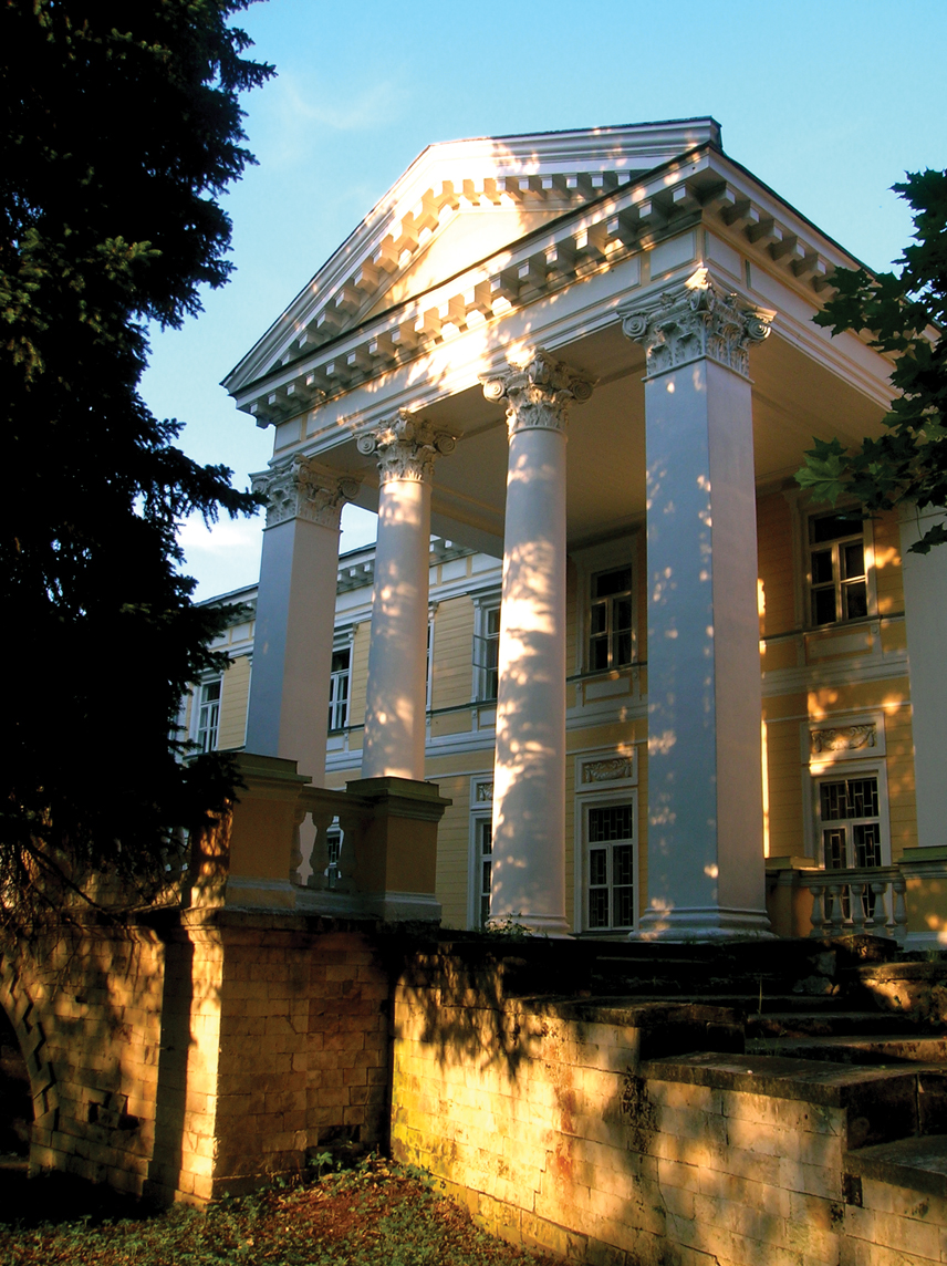 Summerhouse of the Trubetskoy family in Uzkoe (1880s)